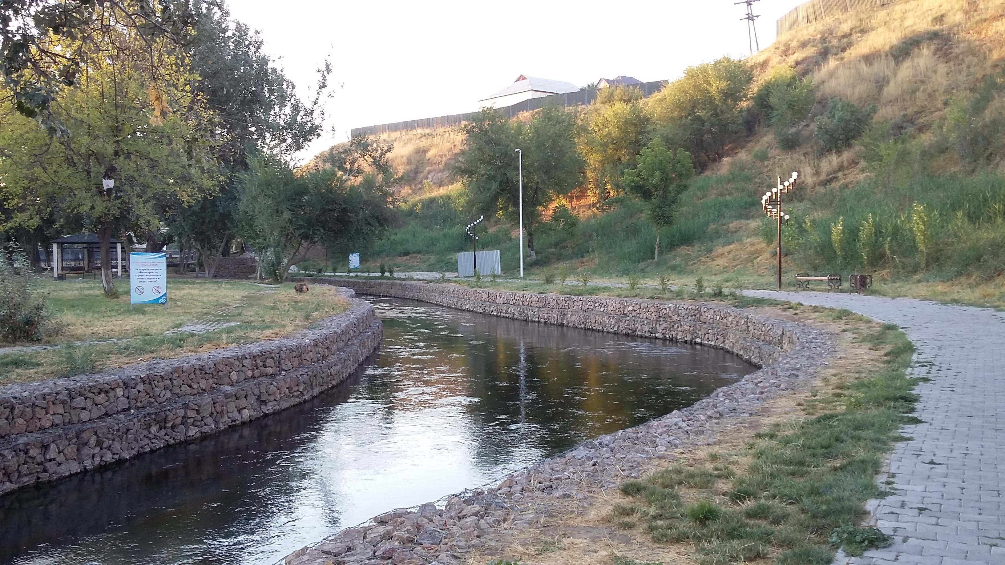 Koshkar Ata river on Shymkent